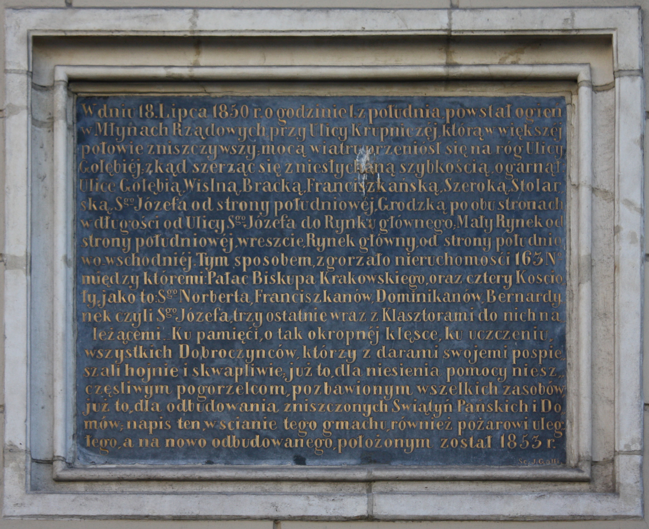 Cracow, plaque at Main Market Square commemorated great fire in 1850